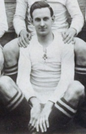 Bob Pursell